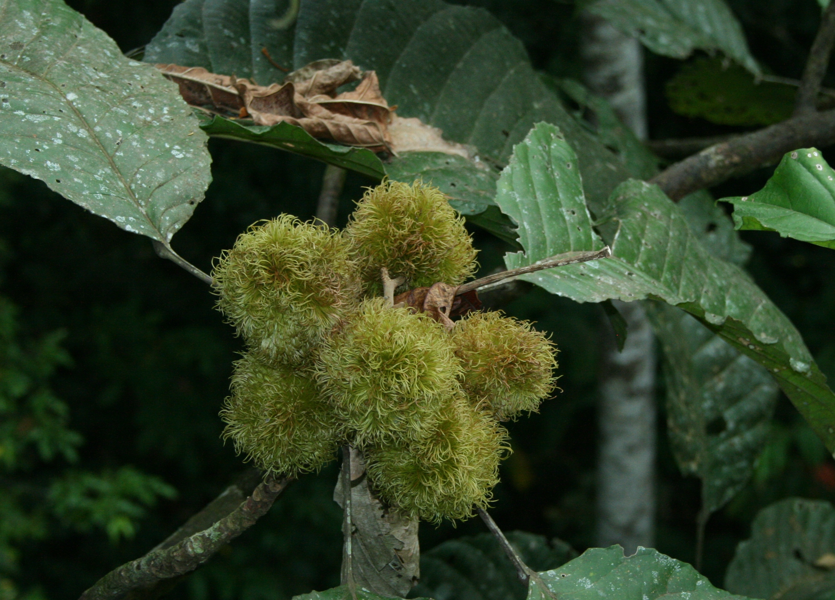 Fruiting branch of the rainforest tree Sloanea grandiflora, upper Rio Tabaro in Rio Caura area, Venezuela